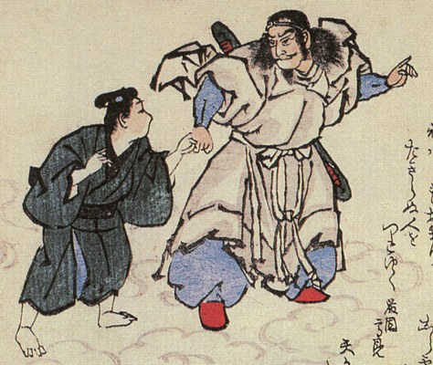 Kami-kakushi (Unexplained disappearances) from the Kyōka Hyaku Monogatari